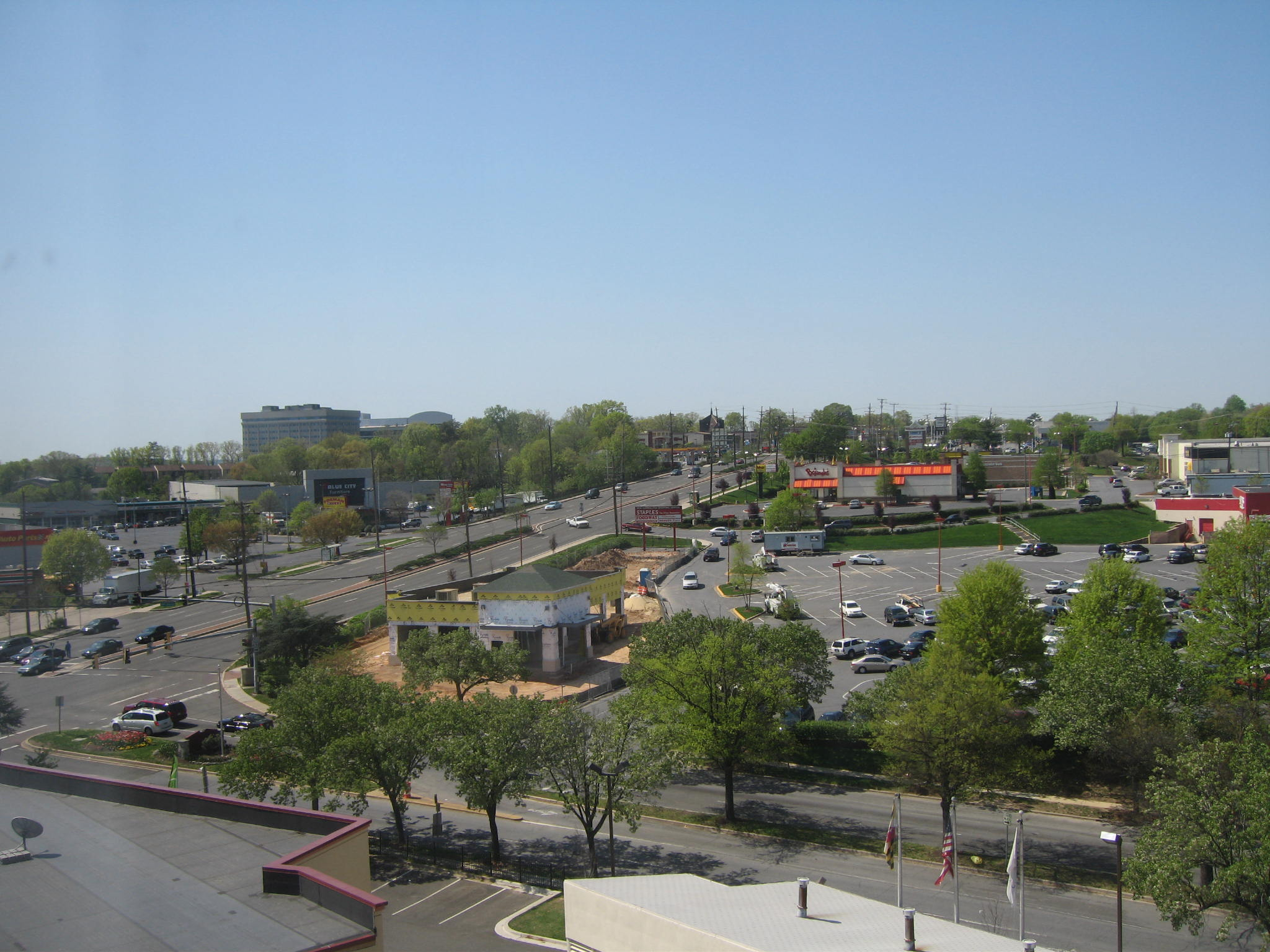 A picture of New Carrollton. This was taken from a room in the Sheraton Four Points Hotel.